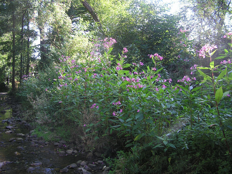 Himalayan Balsam at the Erlenbach, tributary of the Nidda.